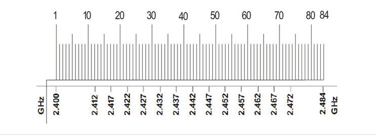 Frequency points within FS-FHSS technology